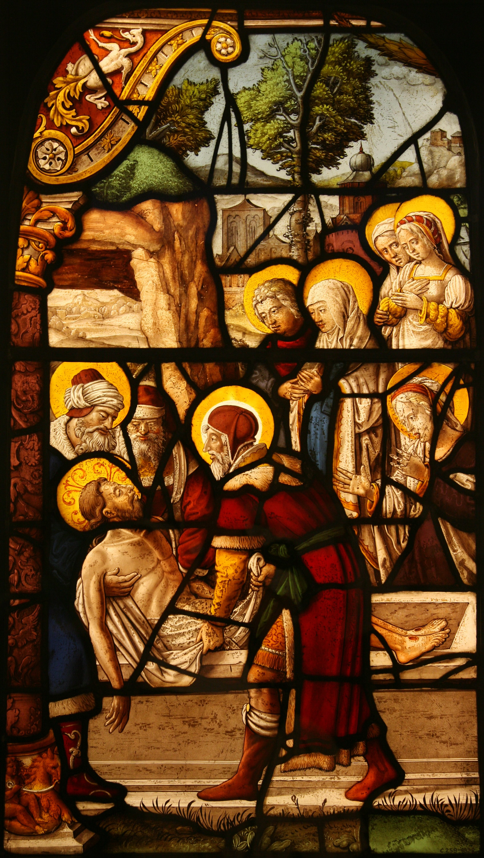 Exhibited at the room 27 (Northern Renaissance 1500-1700, case EXP), Victoria and Albert Museum, London, England. It was originally in the cloisters of Steinfeld Abbey, near Cologne. German (Cologne), about 1540-1542